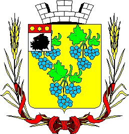 Coat of Arms of Izium (project by Bernhard Karl von Koehne)